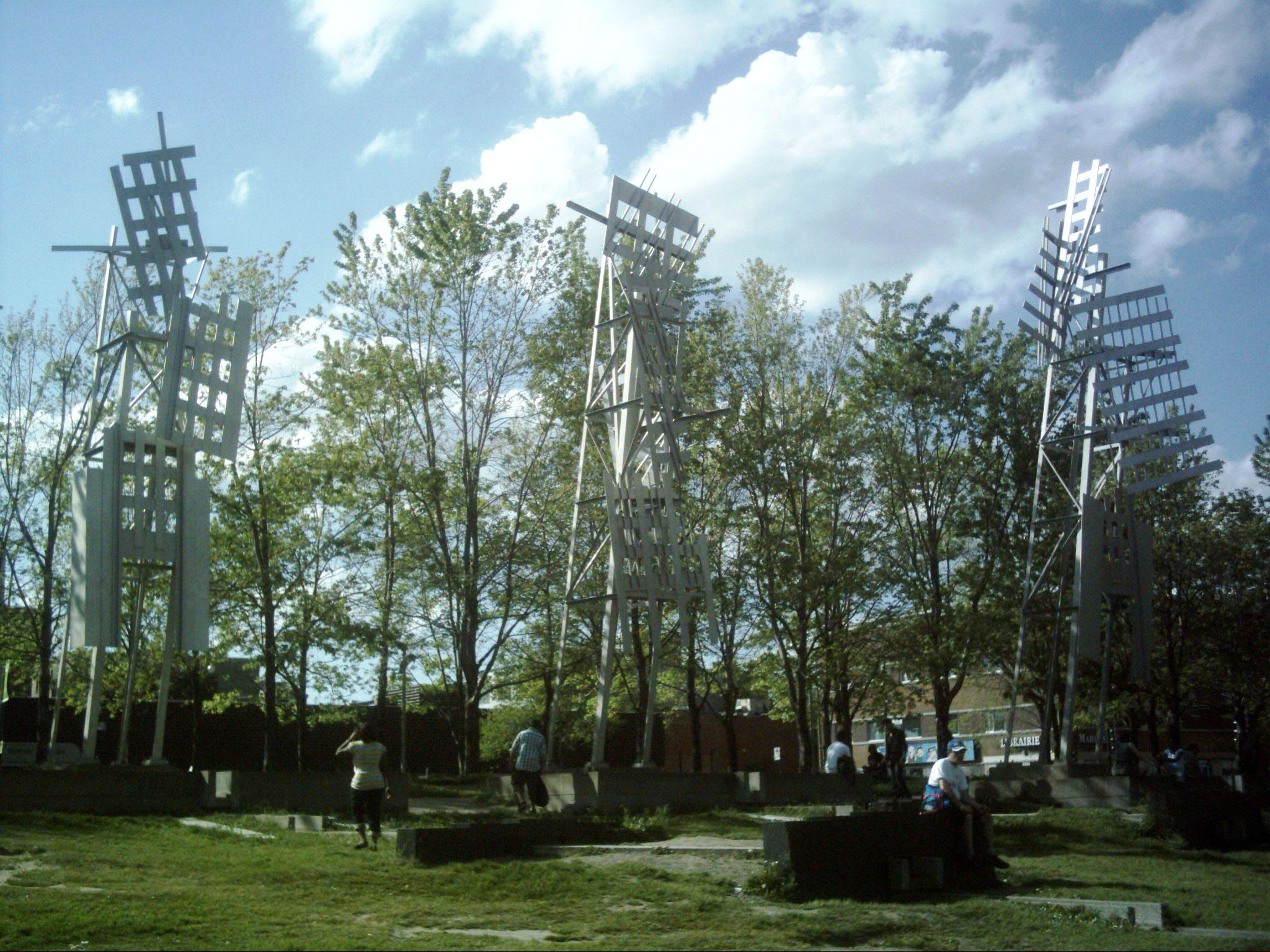 Melvin Charney's scuptures in Place Émilie-Gamelin, Montreal